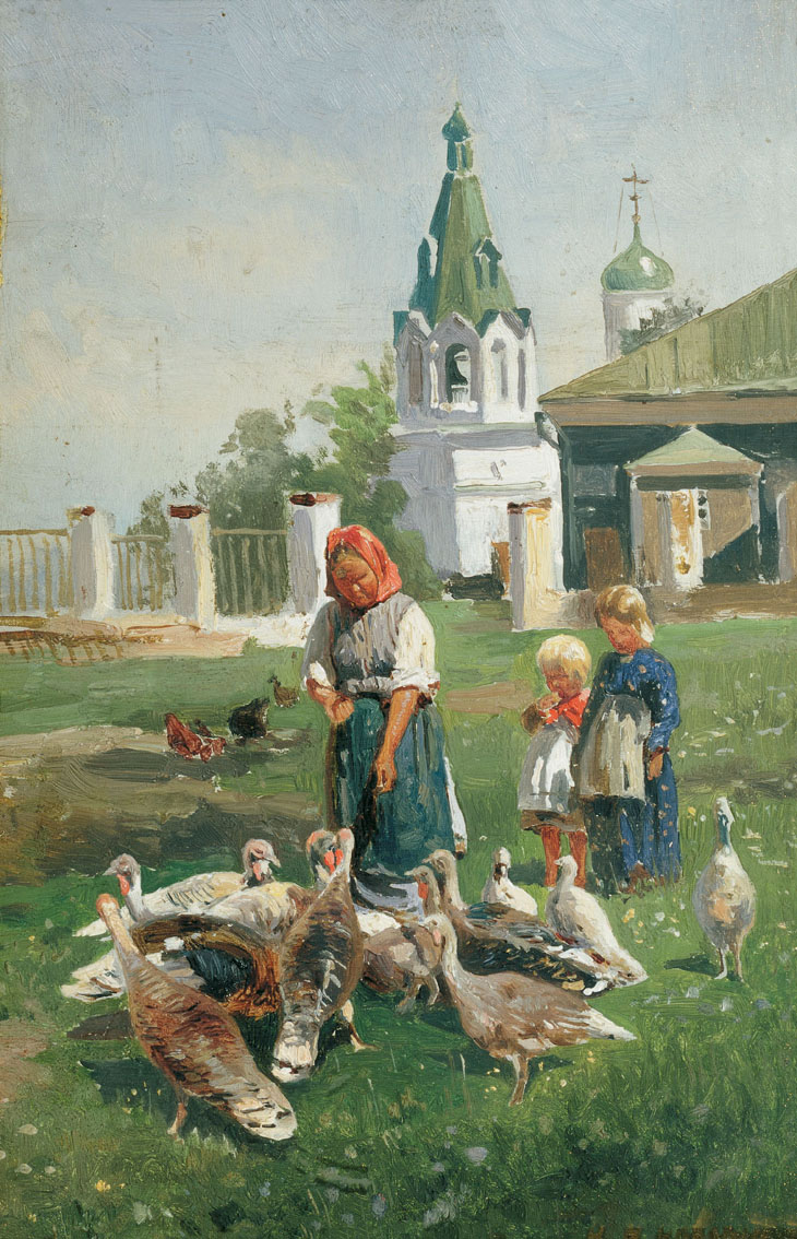 Nikolay Makovsky (1842-1886) Feeding Turkeys